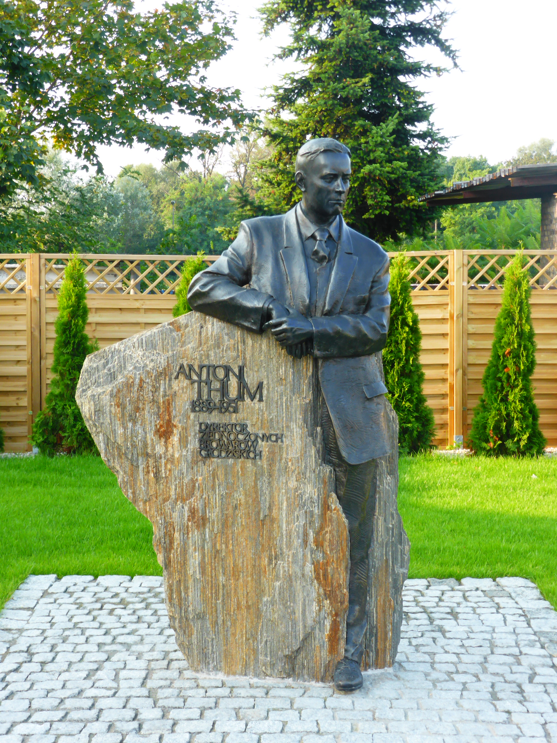 Monument of Antoni Thum, Grodzisk Wlkp., Poland